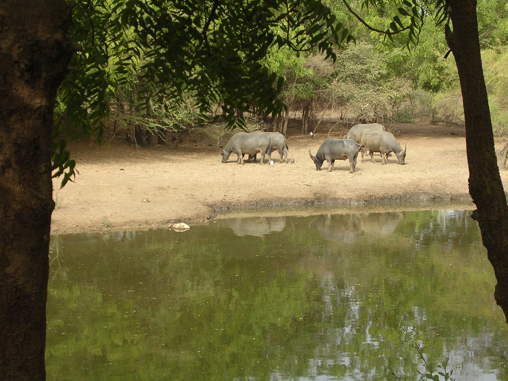 Landscape from reserve of Saly, Senegal.